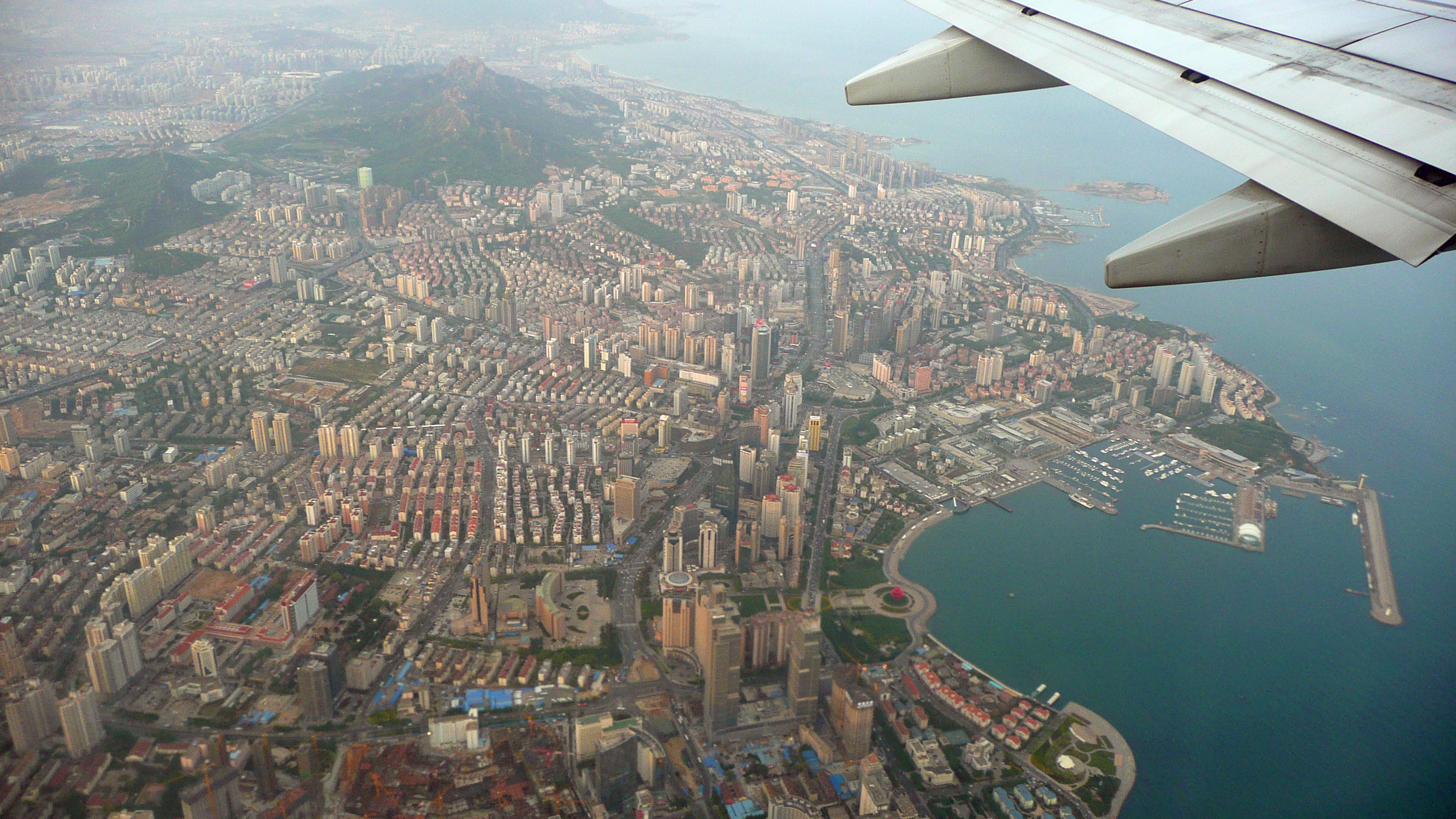 Aerial view of Qingdao, olympic harbour